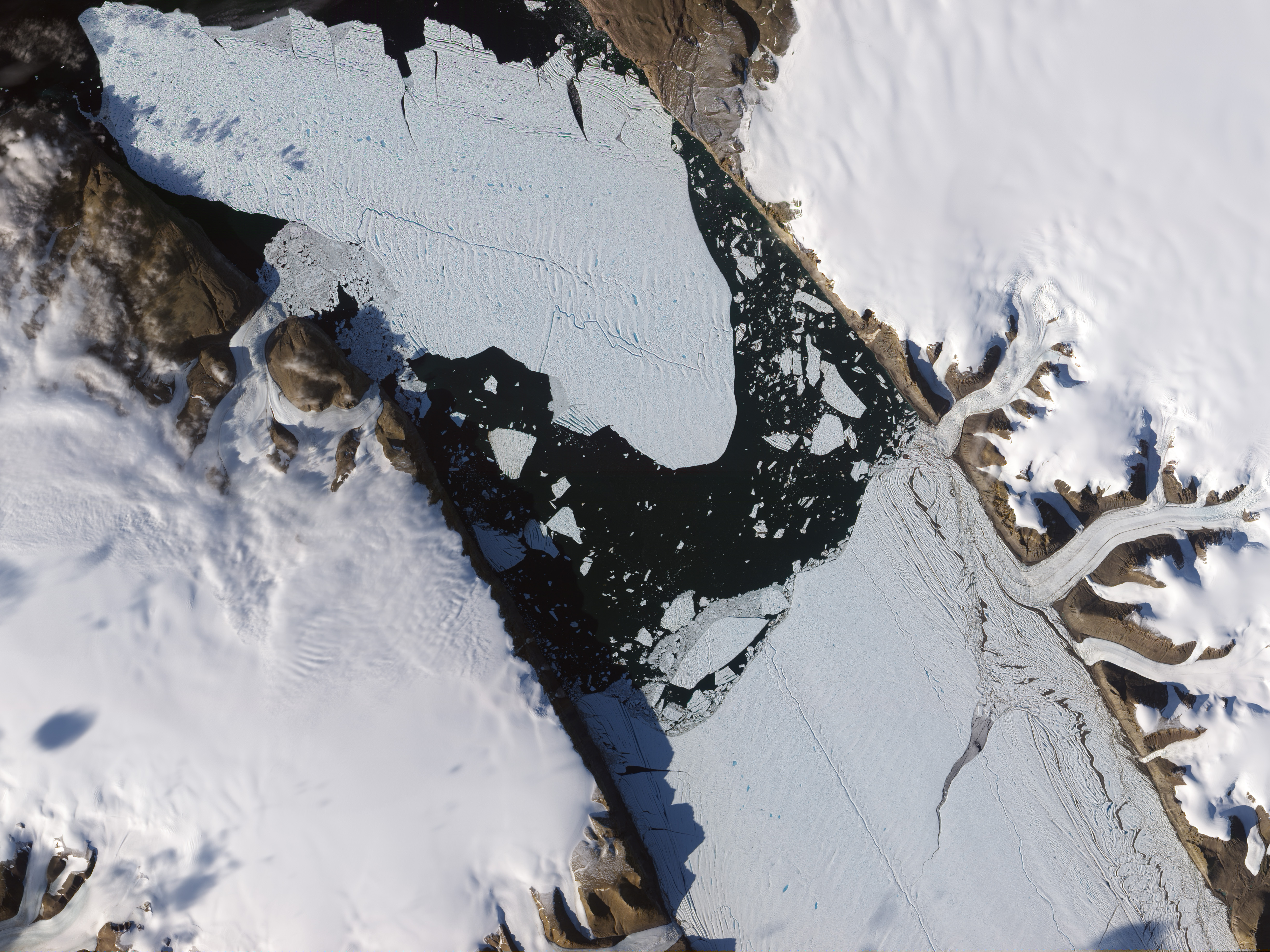 Natural-colour satellite image of the ice island that calved off the Petermann Glacier in north-western Greenland on August 5, 2010. Although slivers of ice have loosened around its edges, the ice island has largely retrained its original shape. The island, which has rotated counter-clockwise since the calving, also retains the crevassed structure of the Petermann Glacier; both the glacier and the ice island sport rippled surfaces. Thin longitudinal cracks appear on the ice island surface, and wider lateral cracks push in from the island’s sides. An uneven line of pools, medium blue in colour, runs down the length of the ice island. Along the glacier’s new front, some smaller icebergs appear to have broken free, and ice fragments litter the water surface between the ice island and the glacier. Also visible in this image are multiple small glaciers that feed the Petermann, flowing down to the massive glacier from the north-eastern side of the fjord.